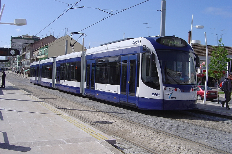 Metro Sul do Tejo, in Corroios (Seixal, Portugal). It is a Combino Plus tram (#C001) produced by Siemens in 2005.